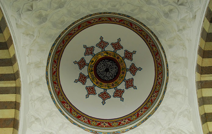 Dome of Gülbahar Hatun Mosque